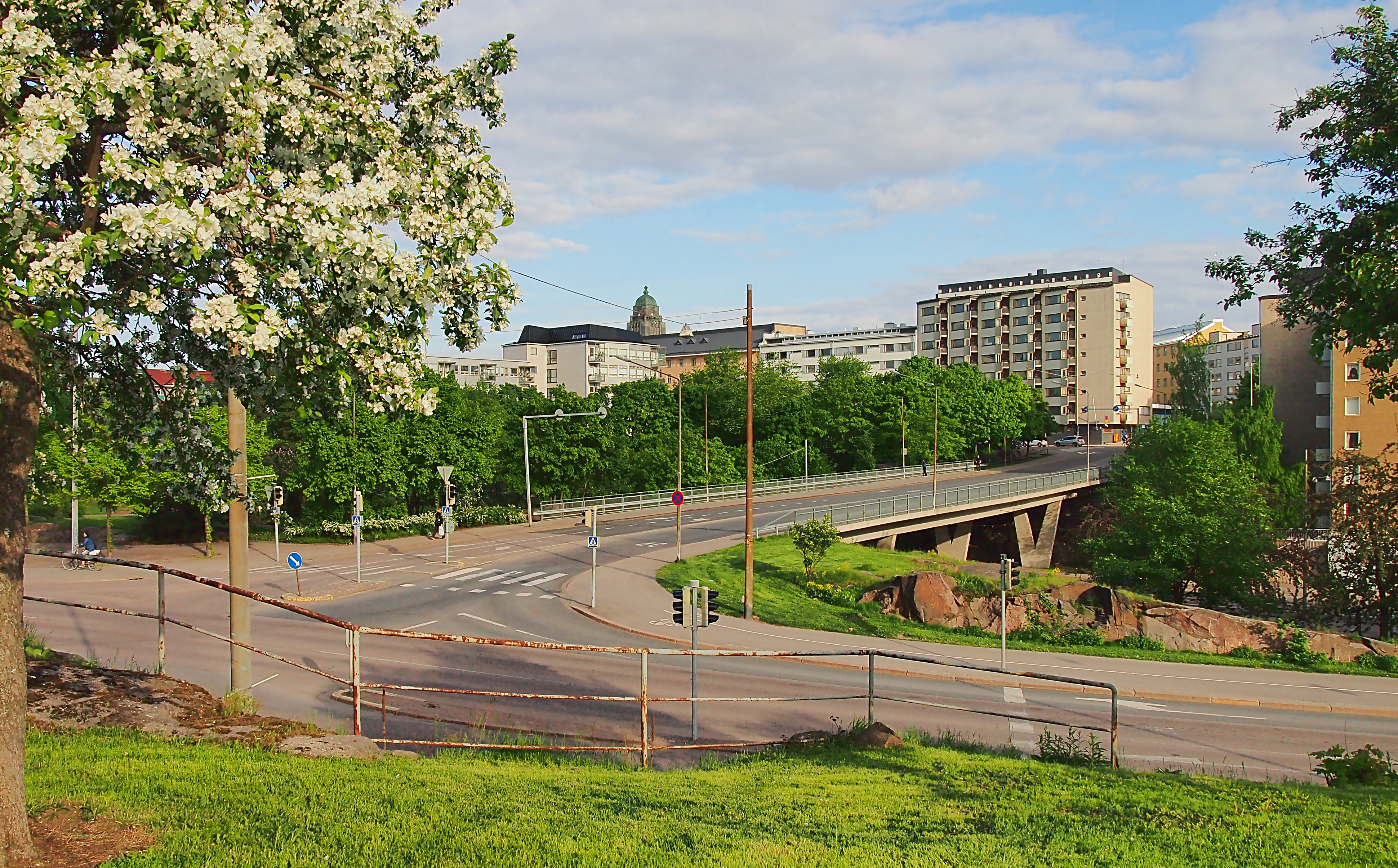 The streets Sturenkatu and Wallininkatu crossing. The bridge of Wallininkatu crosses the street Helsinginkatu. Kallio/Alppiharju, Helsinki, Finland. Late Sping 2013.